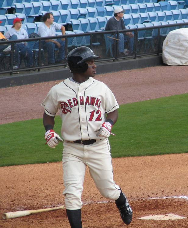 Cropped photo of Esteban Germán playing for the Oklahoma RedHawks.